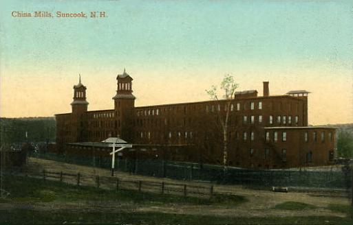 China Mills, Suncook, NH; from a 1909 postcard.